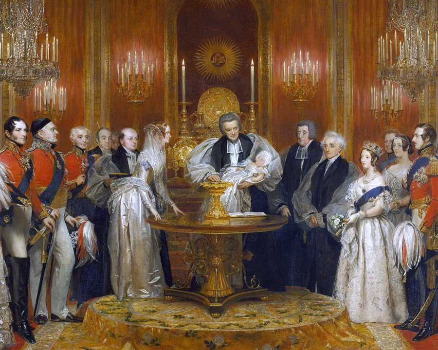 The Lily Font at the christening of Victoria, Princess Royal, 10 February 1841.